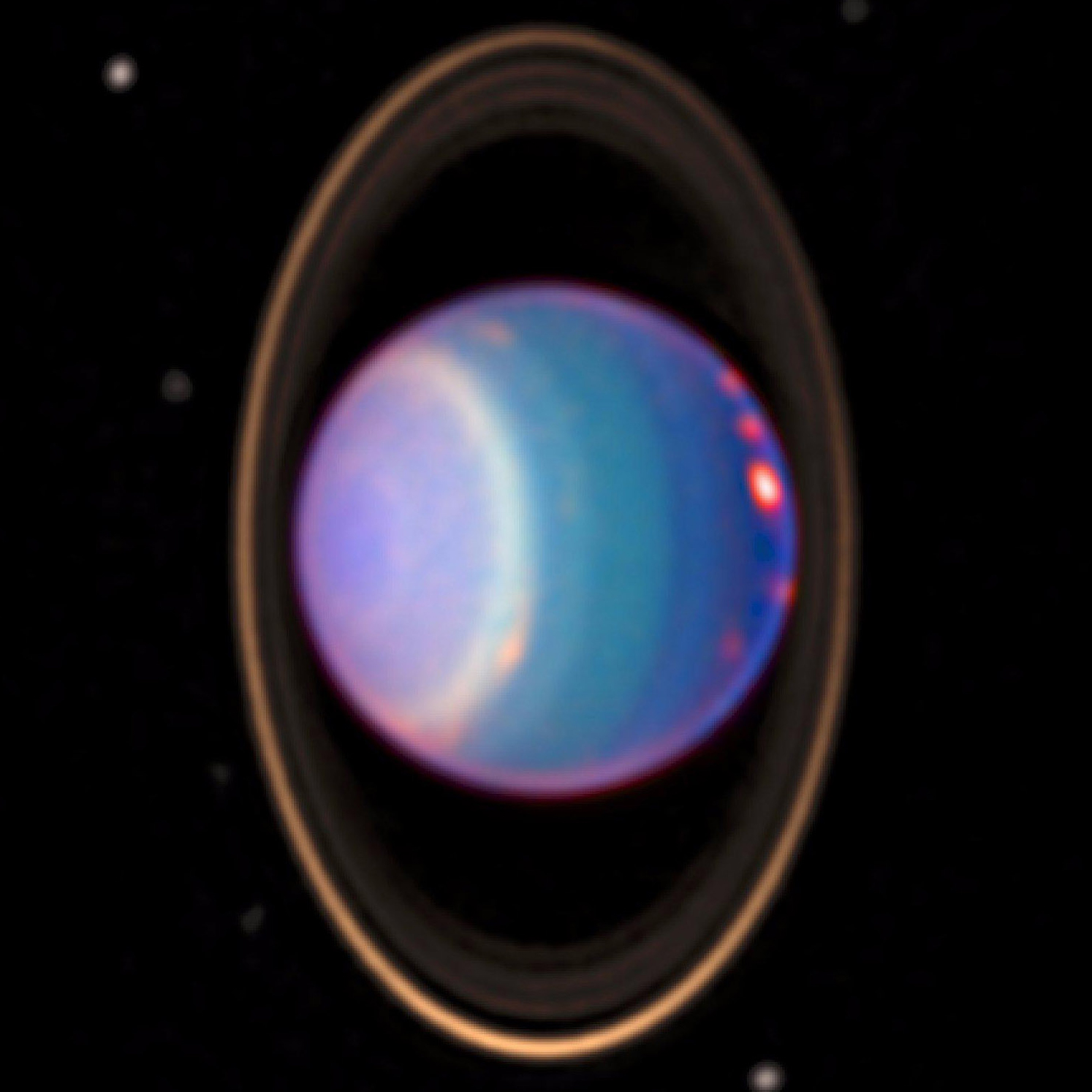 HST image of Uranus showing cloud bands, rings, and moons